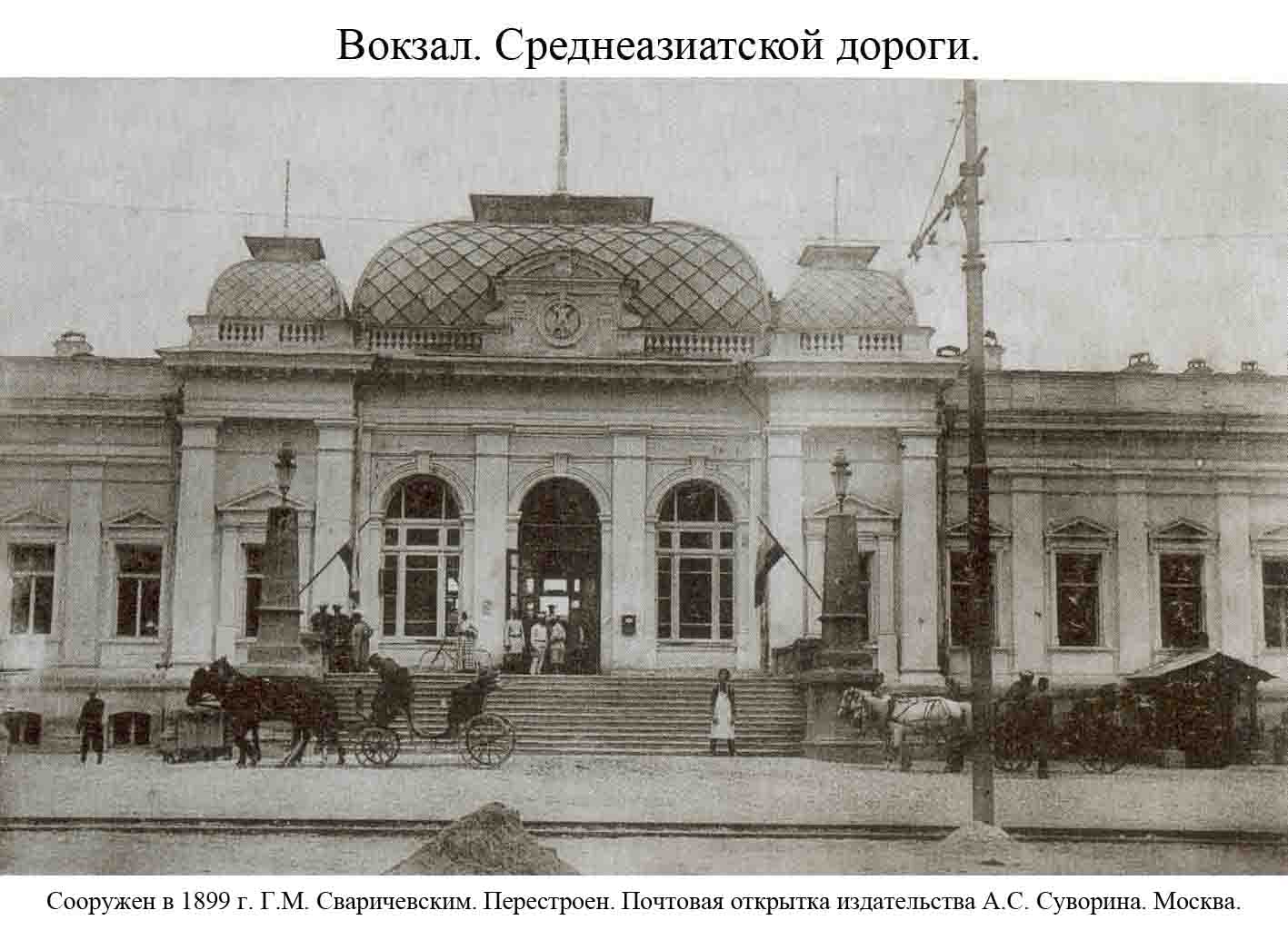 Railway station in Tashkent 1912